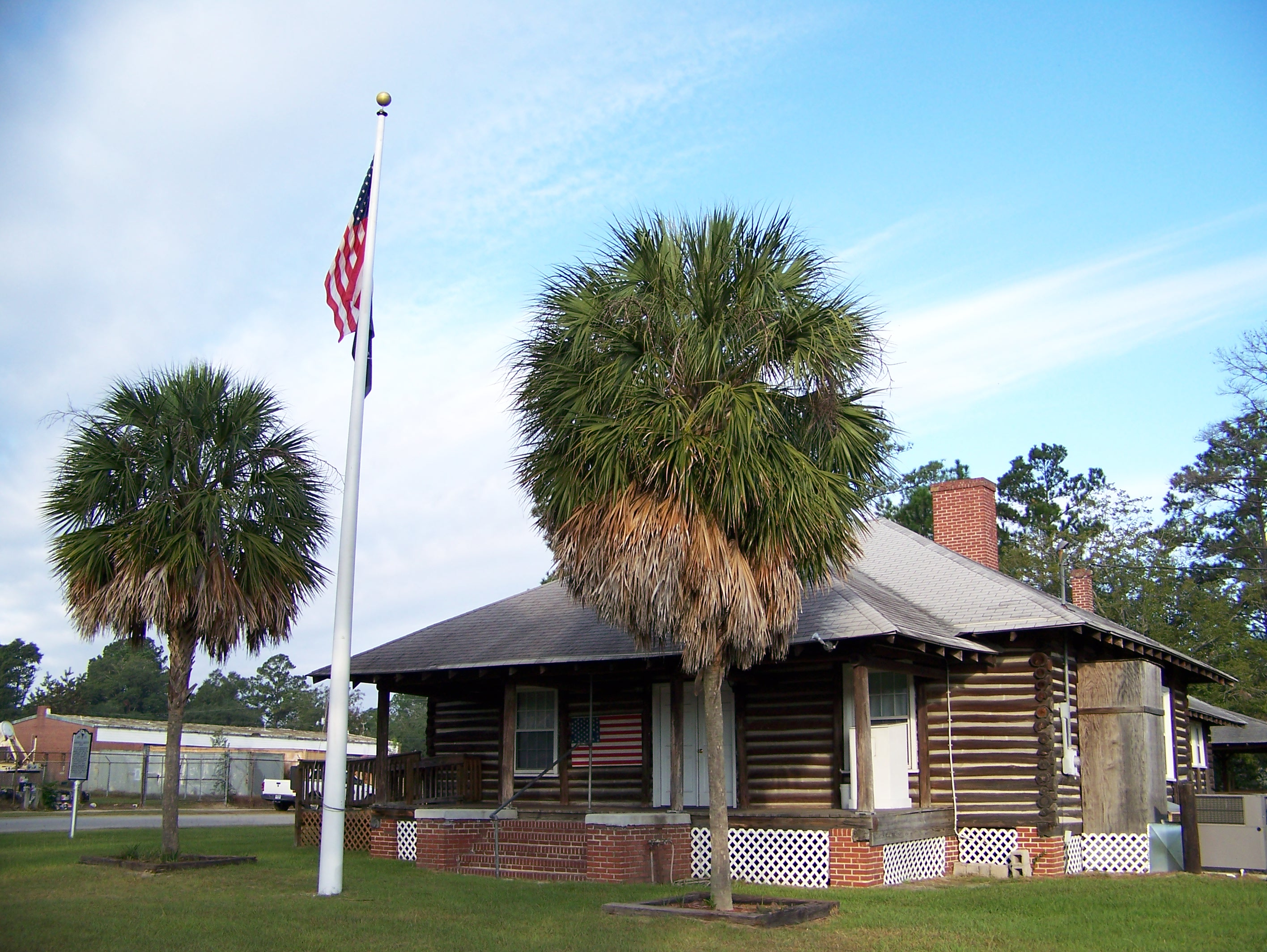 American Legion Hut